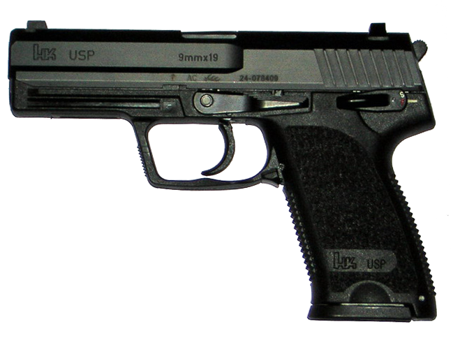 Photo of HK USP. Caliber 9 mm Parabellum.